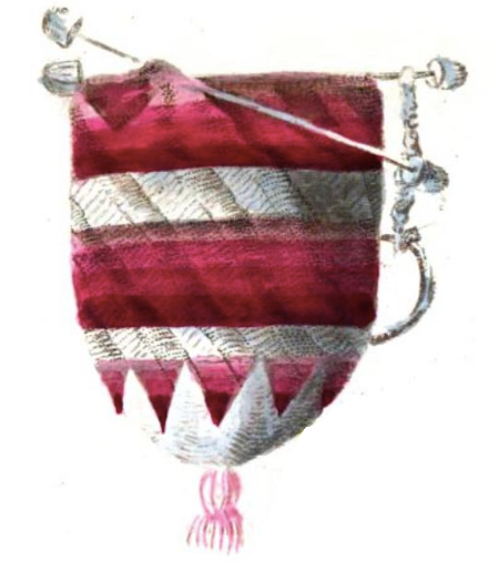 The illustration is accompanied by crochet instructions which, at the time of uploading, are the earliest noted in the present-day literature.